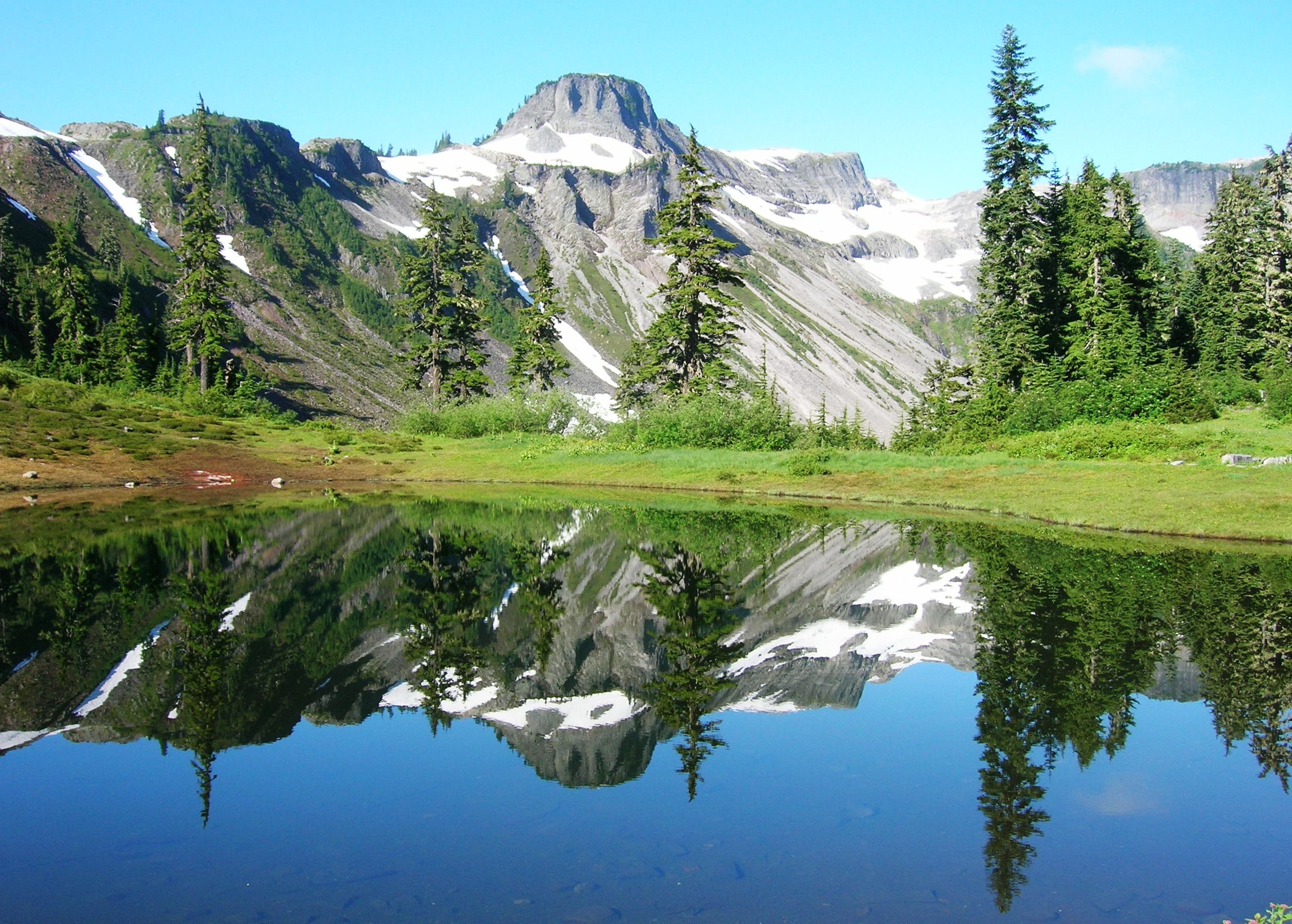 Table Mountain in the background (I think) Taken on a brief stop near Mount Baker Washington while on our way to hike into Lake Ann i081206 002 Explore Aug 13, 2006 #475